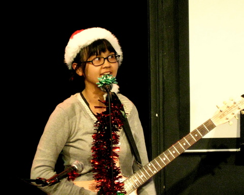 Charlyne Yi at the Upright Citizens Brigade Theater